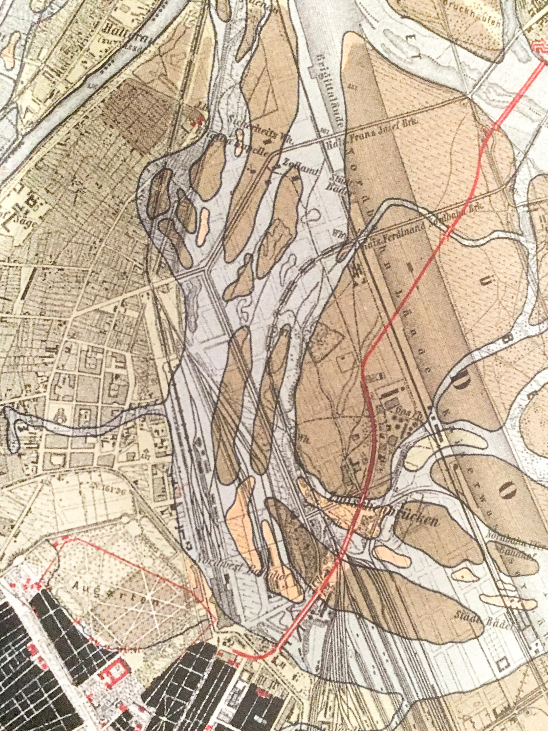 k.k. military-geographical institutes 1883: map of the city of Vienna and its surroundings in 1883 with the representation of the martial conditions on September 12,1693 with the spread of the city and suburbs in the period 1683-1700.